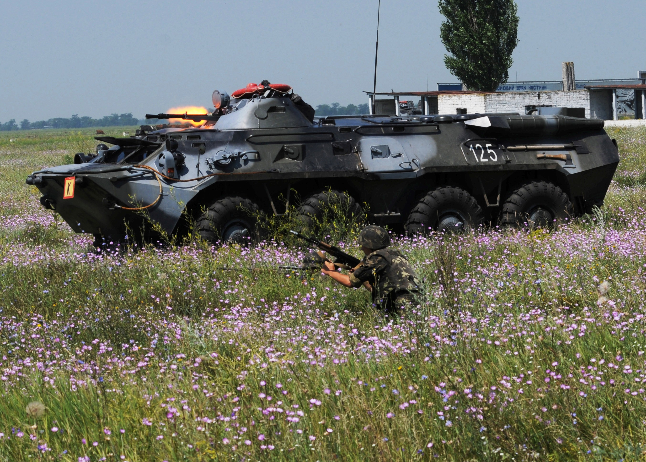 Ukrainian marines simulate an attack at the training base in Shiroky Lan, Ukarine, July 17, 2010, during exercise Sea Breeze 2010.